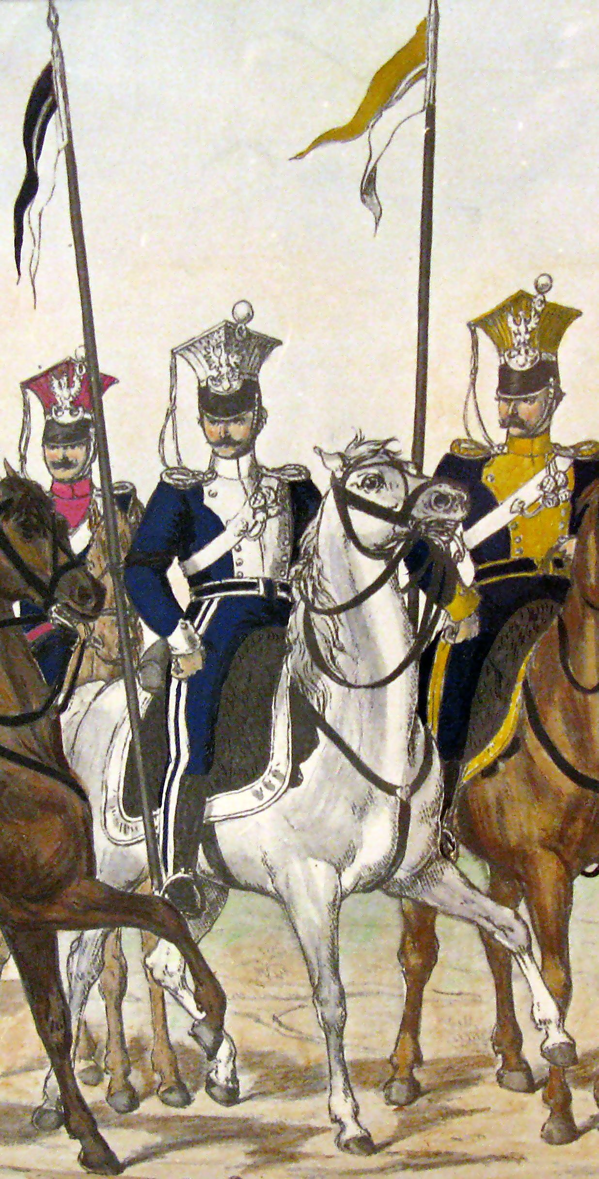 2nd Uhlan Regiment of Polish Army of November Uprising